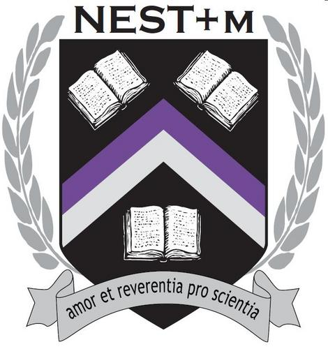 The logo of NYC public school NEST+m